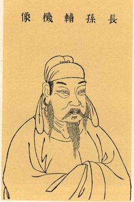 Protrait of Zhangsun Wuji from Sancai Tuhui Zhangsun Wuji was a official of the Tang Dynasty who serve as chancellor during the reign of Emperor Taizong of Tang